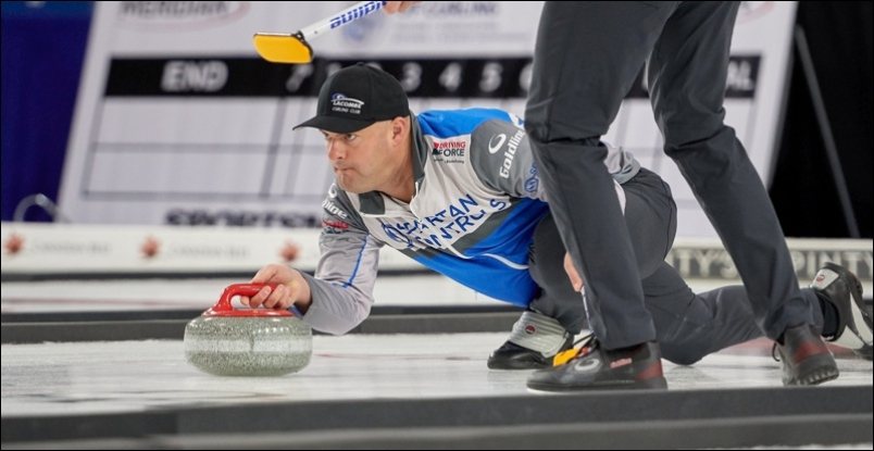 2019 Meridian Canadian Open